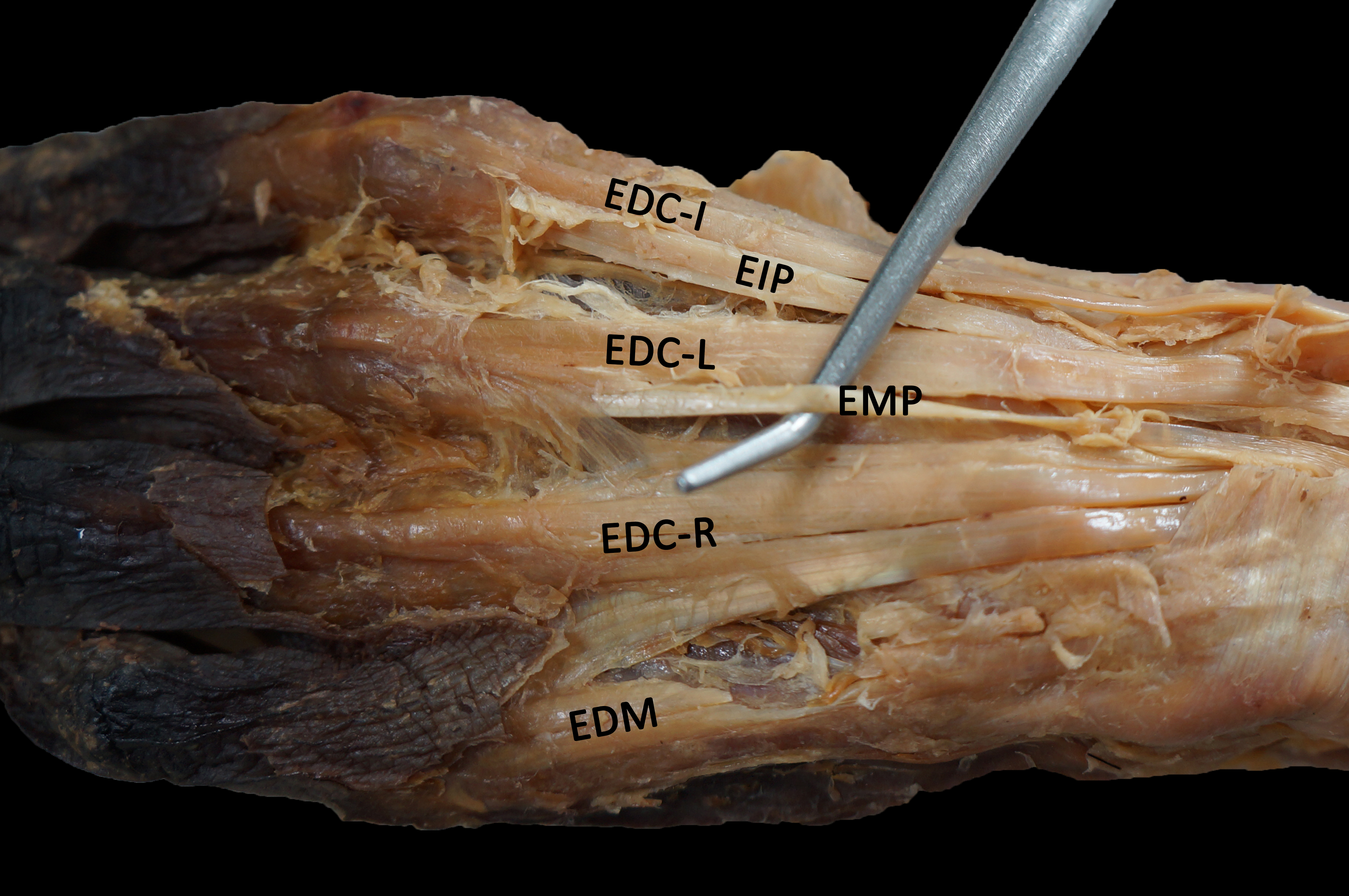 Extensor digitii medii, an anomalous extensor of the hand